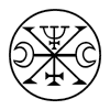 The Seal of Murmur according to the Ars Goetia.